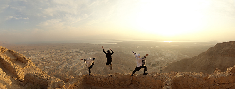 Toby Cohen, Sunrise at Massada